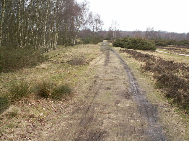 Ryknild Street Roman Road, Sutton Park. Ryknild Street Roman Road, Sutton Park Looking north east. The 1.5 mile section of the Roman road that runs through Sutton Park is one of the best preserved in the country, clearly showing the constructional features typical of roads in this part of the empire. This section of road linked the forts at Metcley (Birmingham) and Wall near Lichfield.